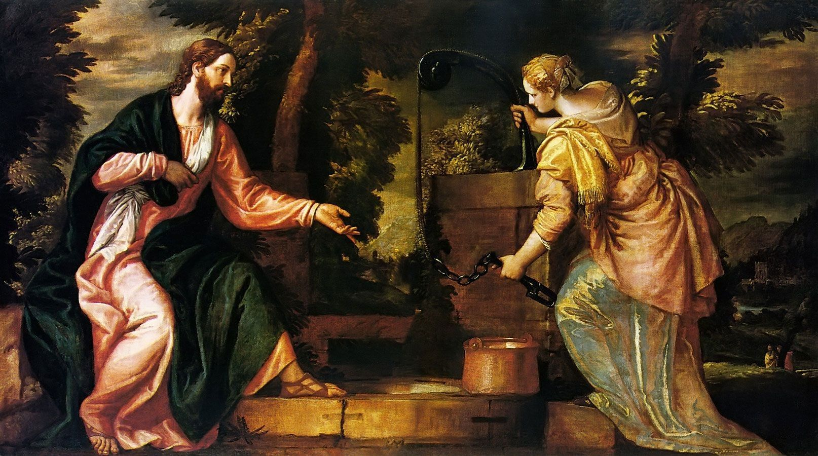 Jesus and the Samaritan Womanlabel QS:Len,"Jesus and the Samaritan Woman" label QS:Lde,"Christus und die Samariterin"